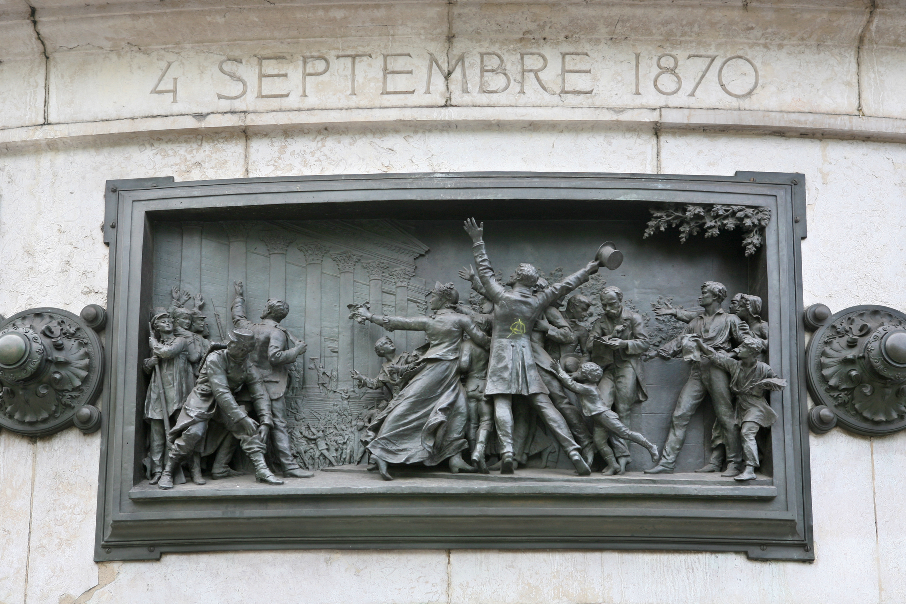 Proclamation of the Republic (1870-09-04), haut relief by Leopold Morice, Monument to the Republic, Paris, 1883